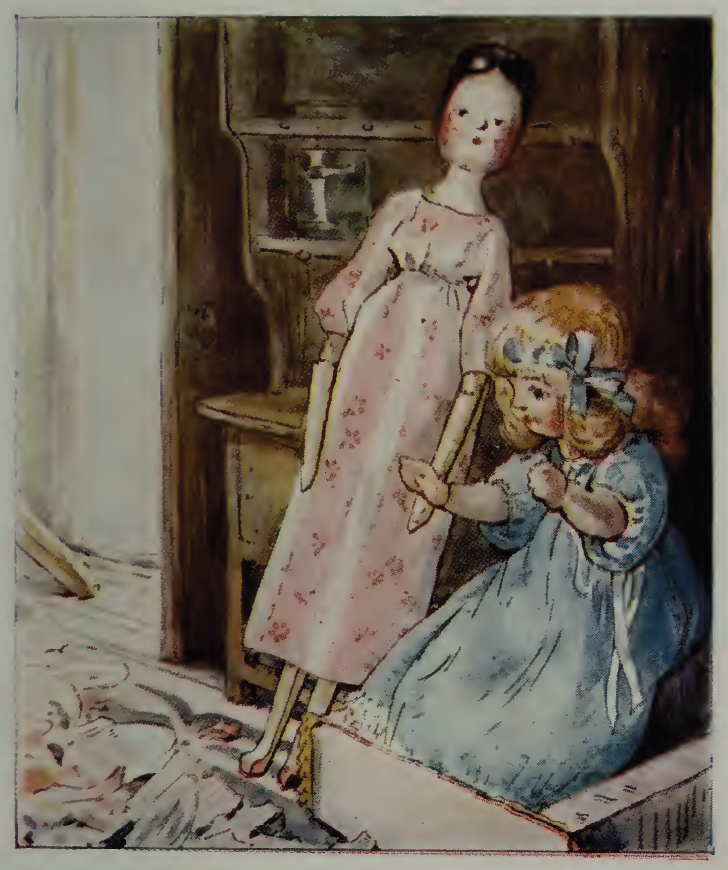 The dolls survey the destruction in their kitchen wrought by the mice, from The Tale of Two Bad Mice